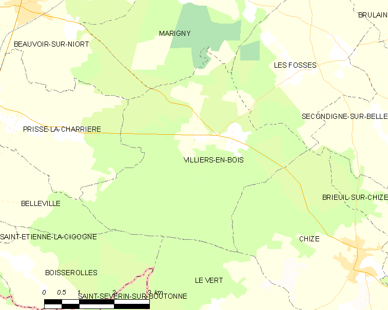 Map of French municipality Villiers-en-Bois